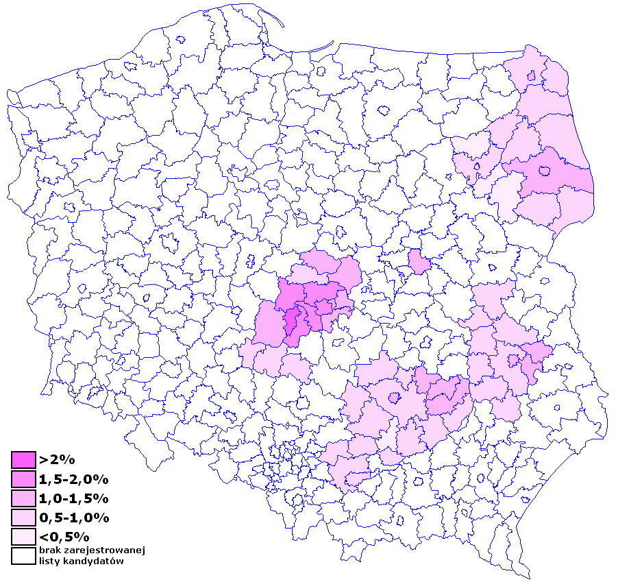 Polish parliamentary election, 2007 - Women Party votes by counties